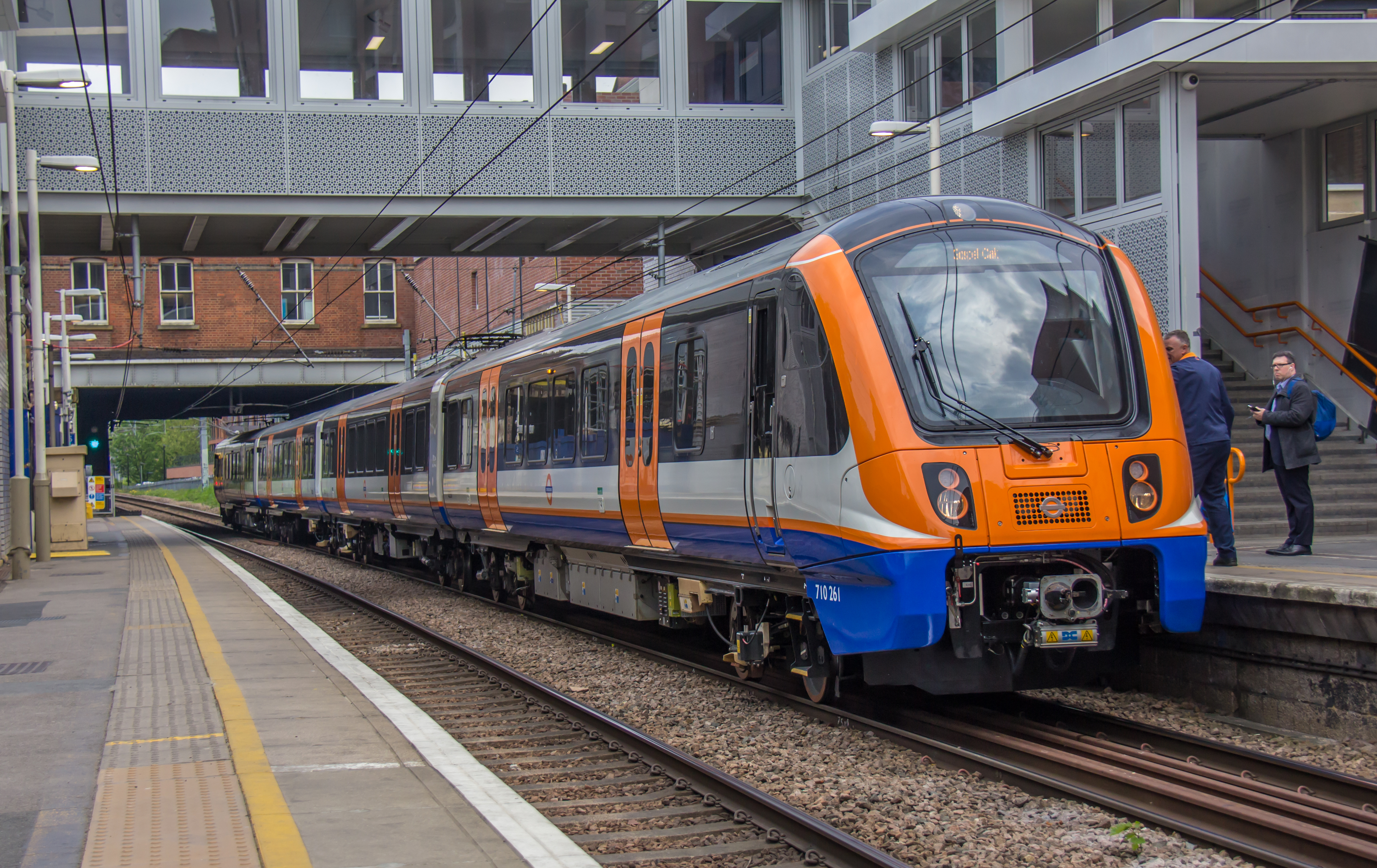 Working route 3Z04